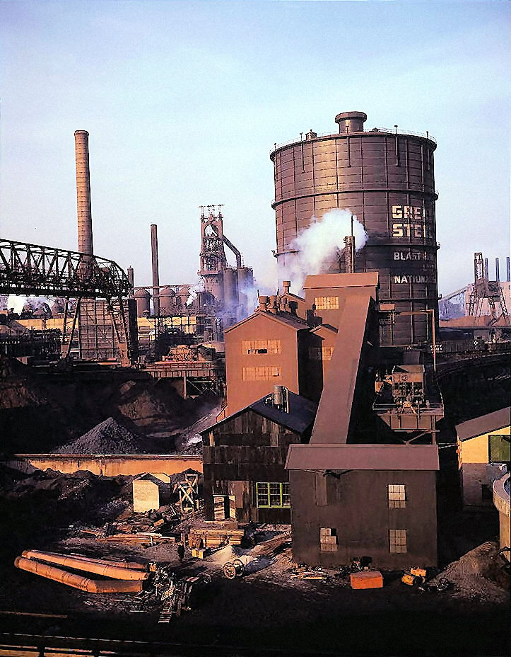 Siegel, Arthur,, 1913-1978,, photographer. Hanna furnaces of the Great Lakes Steel Corporation, Detroit, Mich. General view showing tank which stores gas from the coke oven. Square building and extension in middle ground is where coal is fed to a feeder belt and then transferred to a storage place on top of the coke oven. The coal is then dropped into three inverted bottle-like containers and from there fed directly into the coke ovens 1942 Nov. 1 transparency : color. Notes: Title from FSA or OWI agency caption. Transfer from U.S. Office of War Information, 1944. Subjects: Great Lakes Steel Corporation World War, 1939-1945 Steel industry Furnaces Industrial facilities United States--Michigan--Detroit Format: Transparencies--Color Repository: Library of Congress, Prints and Photographs Division, Washington, D.C. 20540 USA, Part Of: Farm Security Administration - Office of War Information Collection 12002-54 (DLC) 93845501 General information about the FSA/OWI Color Photographs is available at Persistent URL: Call Number: LC-USW36-813